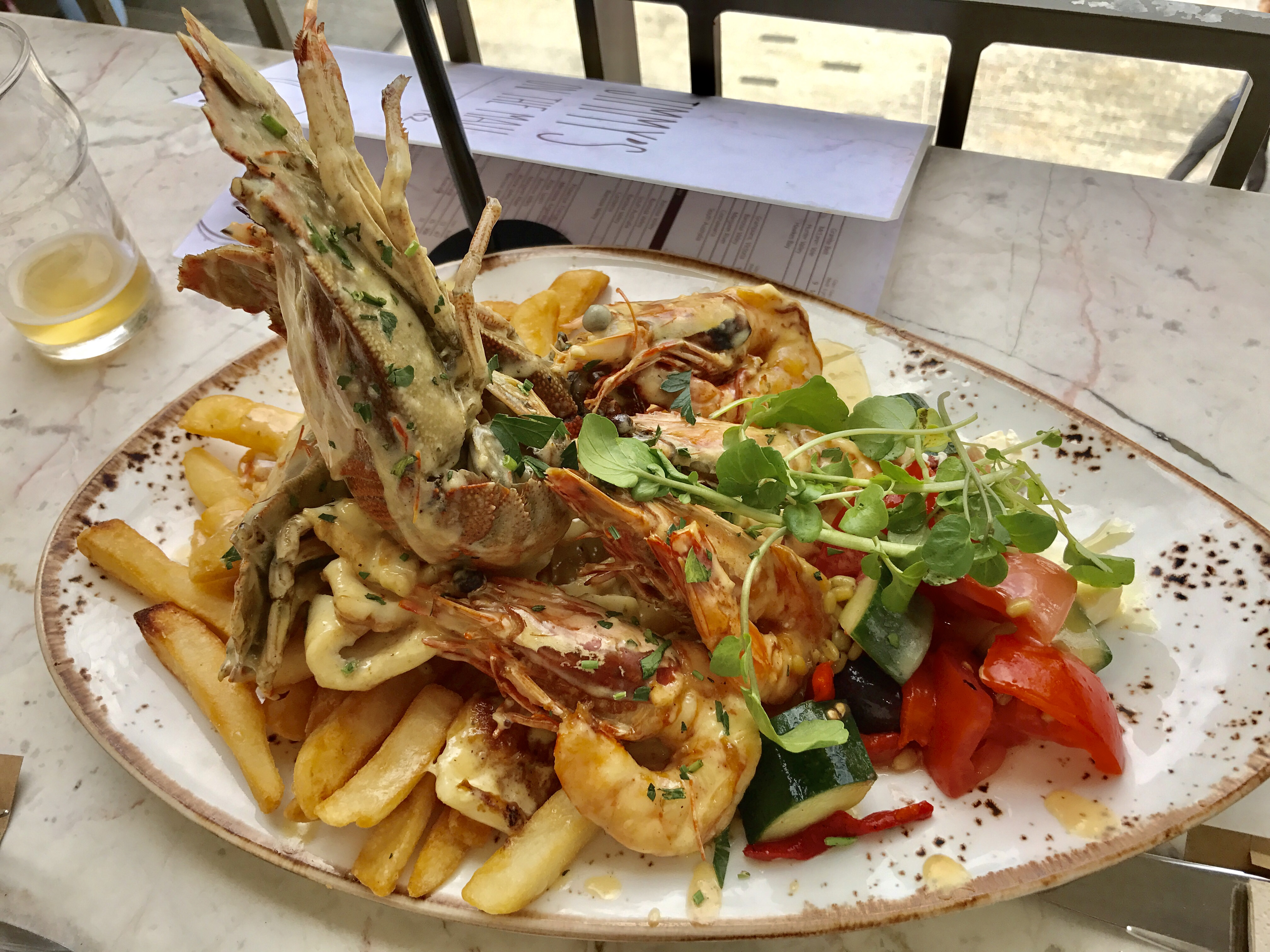 Jimmy's On the Mall seafood dish for two